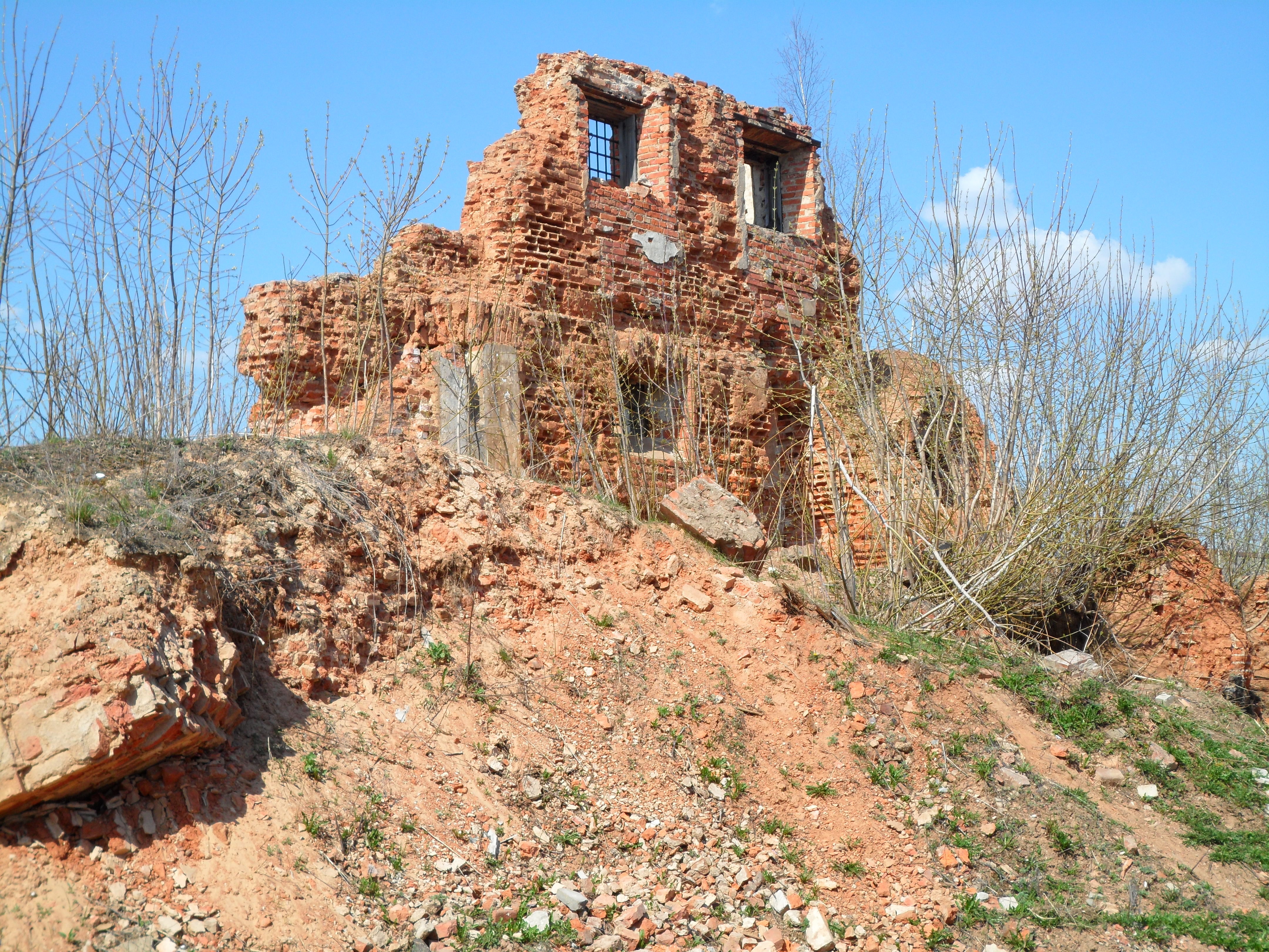 Беларуская (тарашкевіца): Замчышча. г. Барысаў This is a photo of Belarusian heritage monument. Reference number: 613В000001 ( WLM)